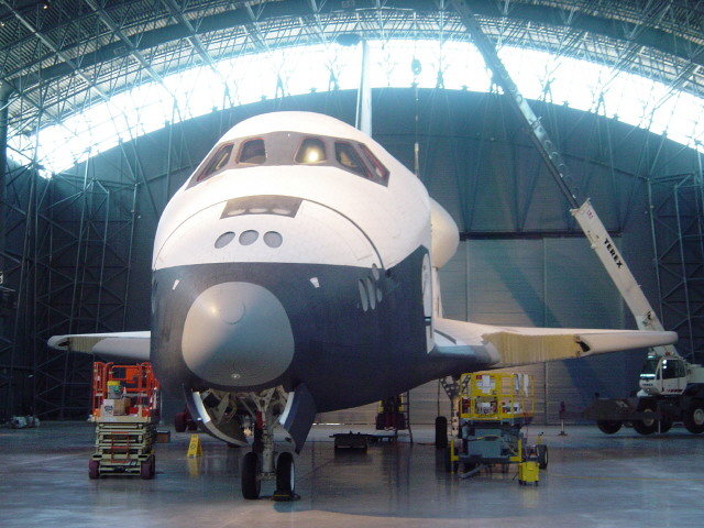 Enterprise at its resting place. The Space shuttle on display at Smithsonian's National Air and Space Museum at the Steven F. Udvar-Hazy Center. The carbon-carbon along the leading edge of the wing was removed after the Colombia accident in order to test the affects of high velocity foam impacts on those surfaces. (EDIT: Actually, Enterprise's leading edge was fiberglass. Carbon-carbon was more expensive than necessary for the prototype. It was removed and used for the initial foam impact tests for the same reason. Better to practice with the fiberglass version and test the setup, before moving on to real carbon-carbon, with few spares available.)